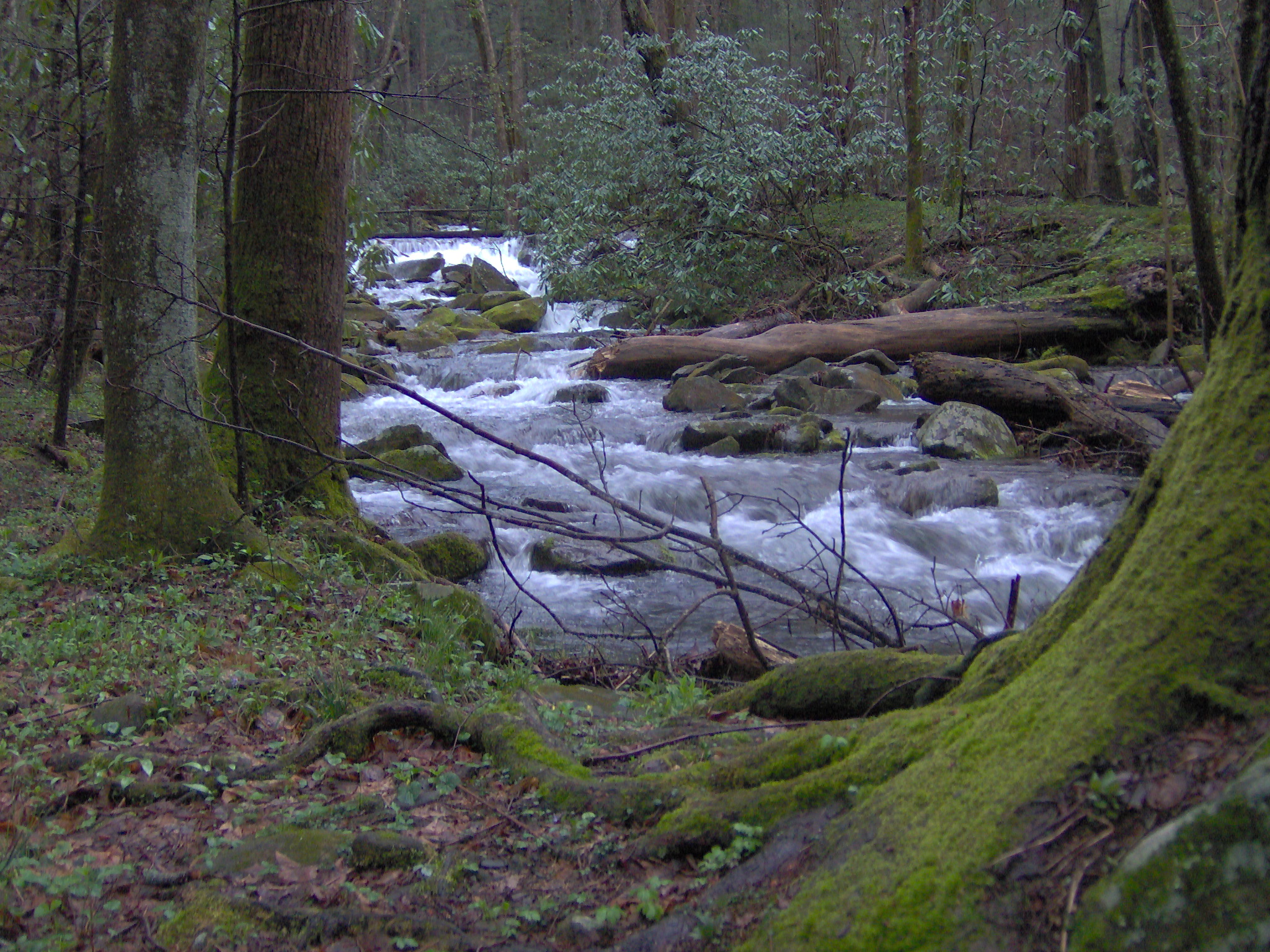 Cosby Creek, viewed from the Low Gap Trail in the Great Smoky Mountains of Tennessee, in the southeastern United States.